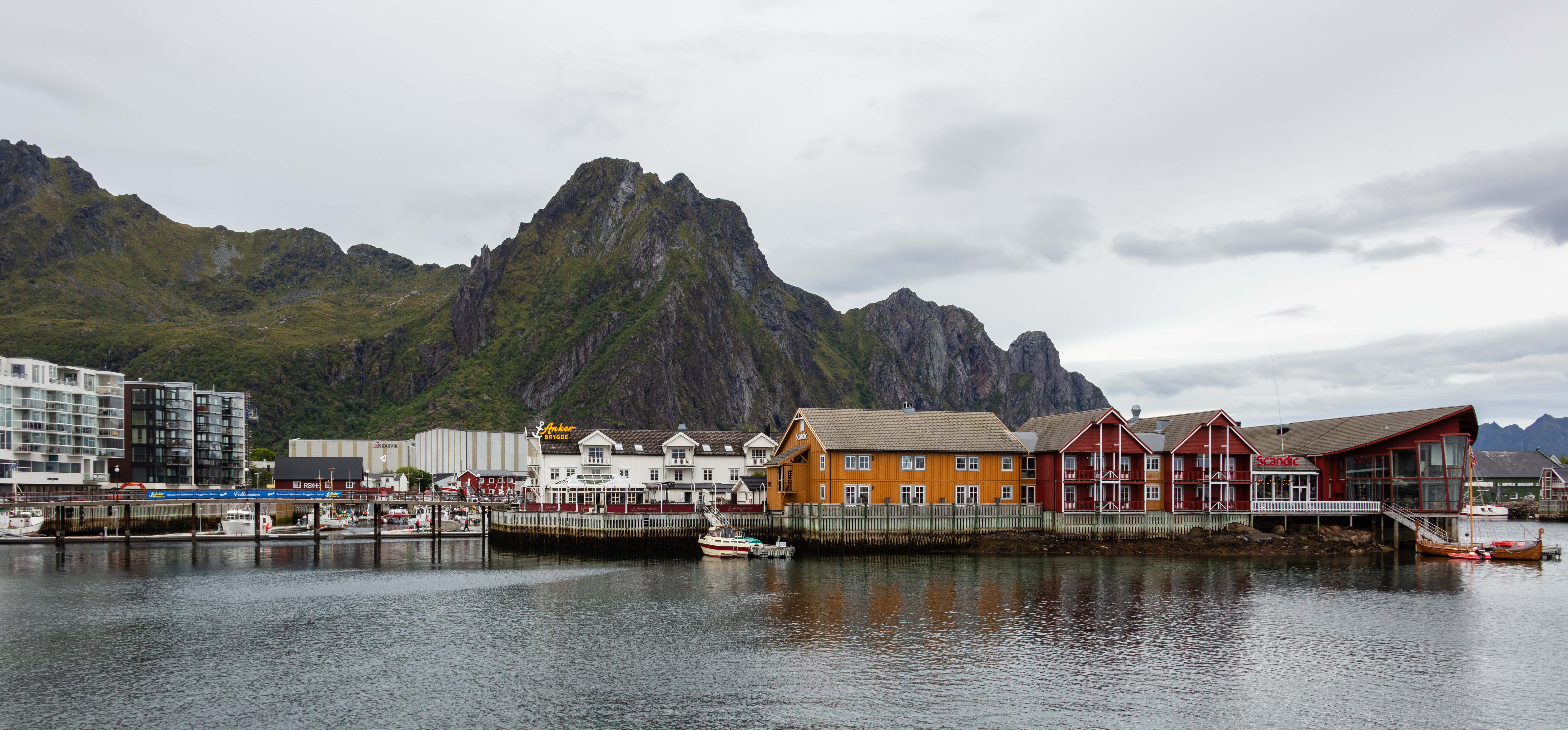 Svolvær, Lofoten, Norway